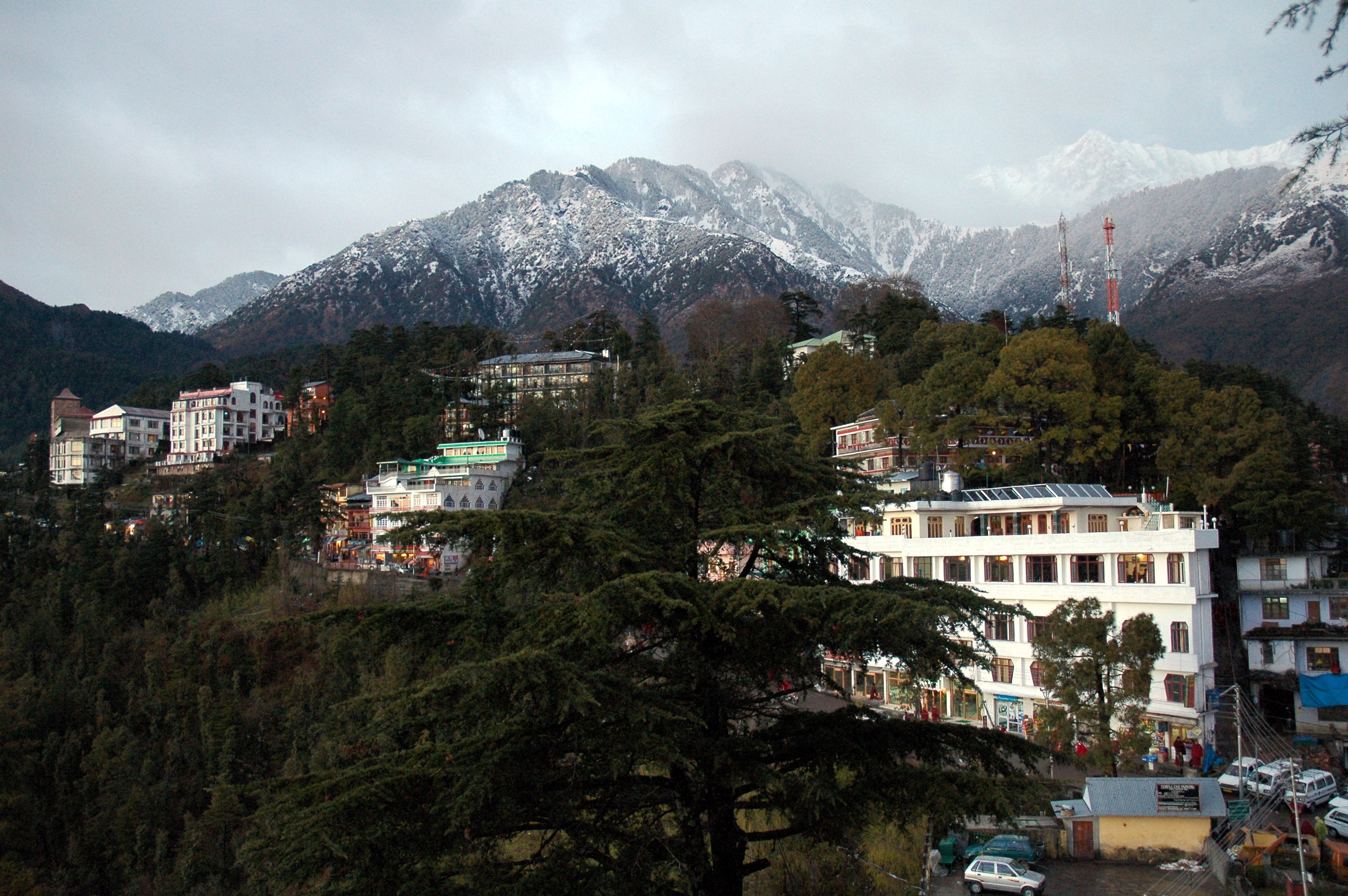 McLeod Ganj and the snowy peaks of the Dhauladhars in March.